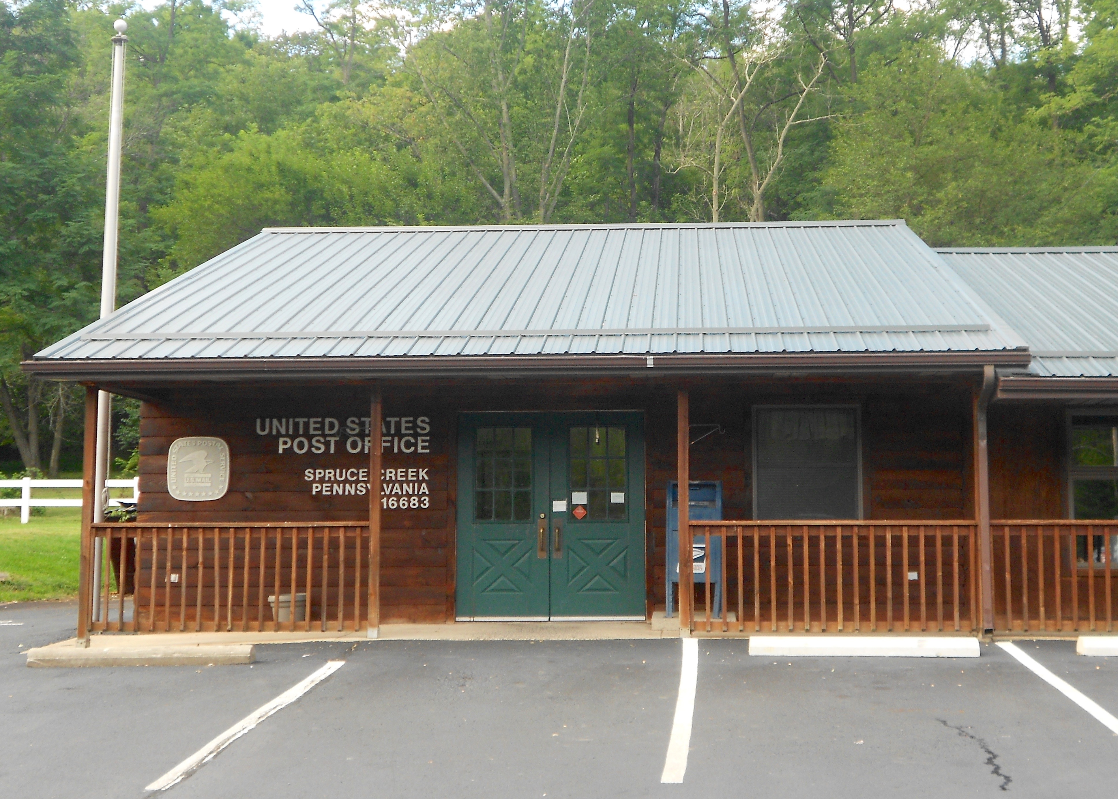 United States Post Office in Huntingdon County, Pennsylvania. ZIP code 16683